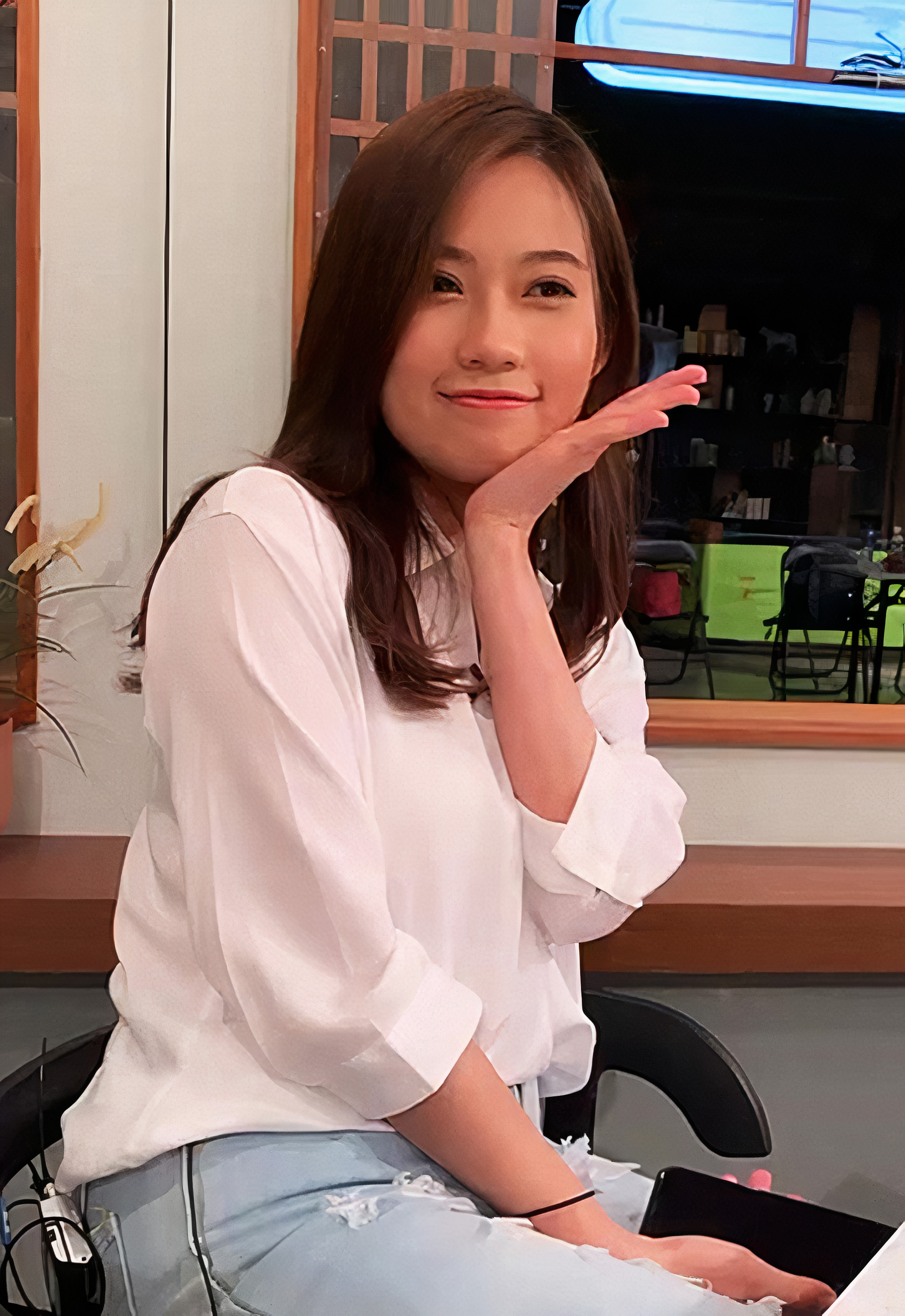 Is the Hong Kong female KOL who had been active since 2016